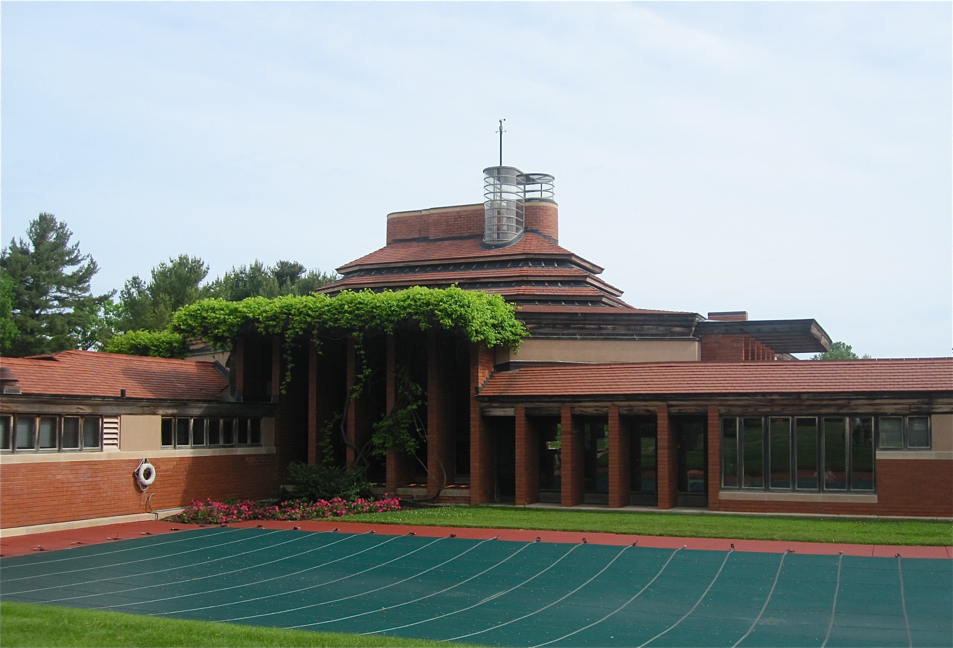 The Herbert F. Johnson House, designed by Frank Lloyd Wright, known as Wingspread. It is listed on the National Register of Historic Places and National Historic Landmarks lists. 33 East Four Mile Road Racine (Wind Point), WI Architect: Frank Lloyd Wright